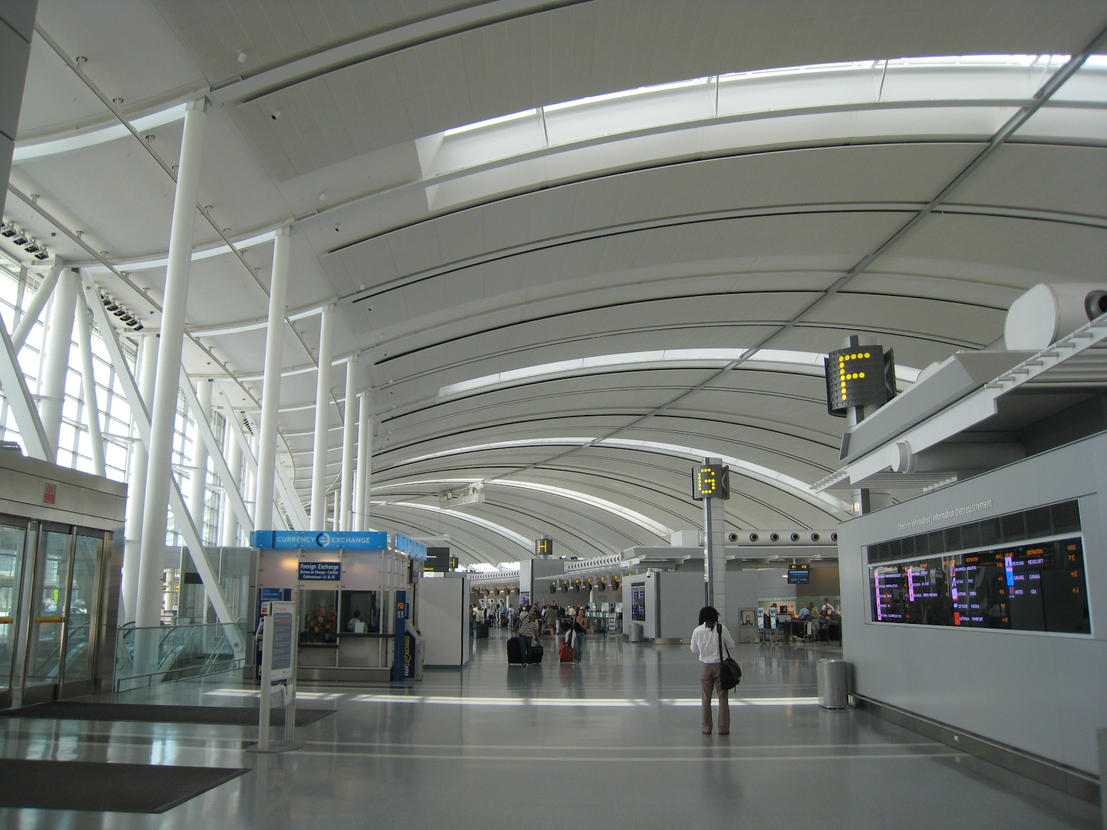 The new terminal 1 building check-in hall at Toronto Pearson International Airport in July 2007.